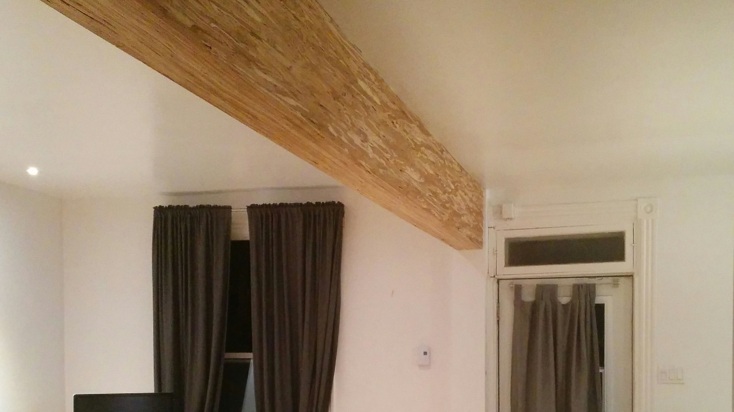 A beam of parallel strand lumber, commercially known as Parallam